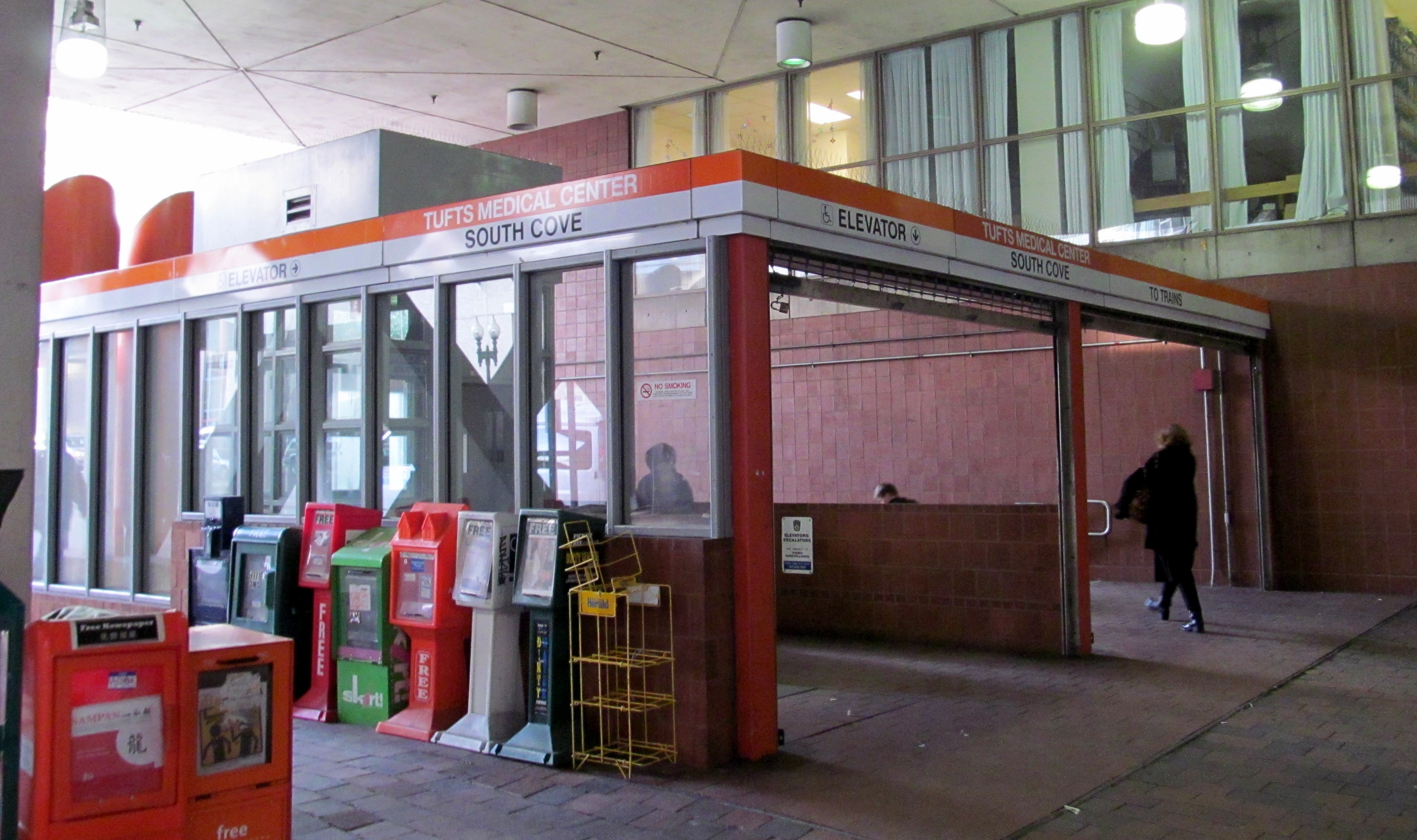 Entrance to Tufts Medical Center station on the west side of Washington Street